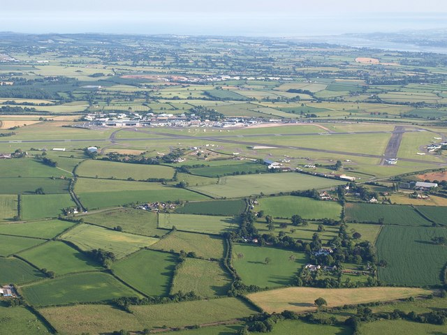 Exeter Airport from the air. The view also covers several other squares; the double hedges of the green lane running away from the camera in the foreground start in SY0095, crossing into SY0094 before reaching the former A30. The right-hand part of the airport, as shown in 1388164, straddles SX9994 and SX9993.